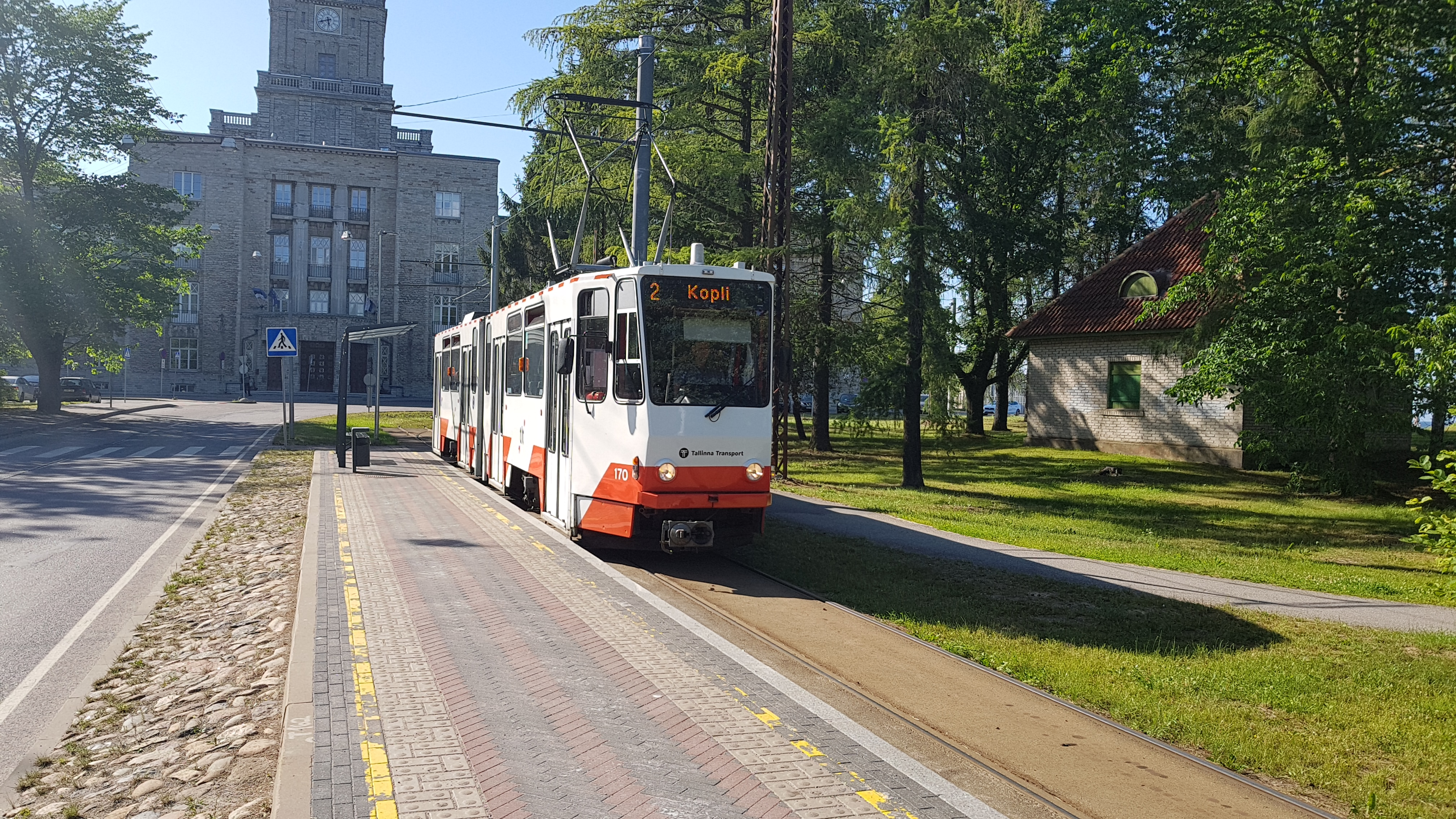 Tatra KT4D 170 in Kopli, Tallinn